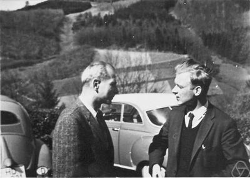 Fritz John (left), Jürgen Moser (right), Oberwolfach 1961